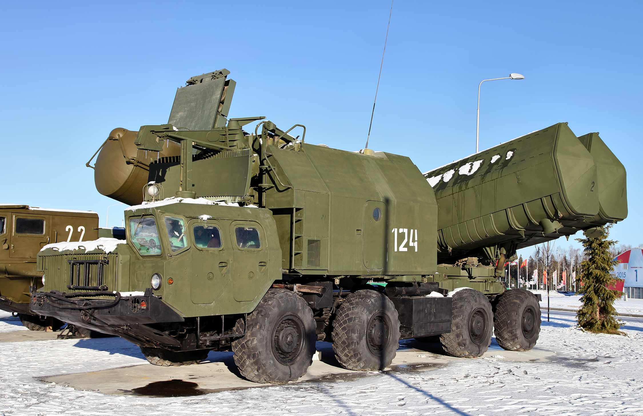 S51 TELAR of 4K51 Rubezh coastal missile system